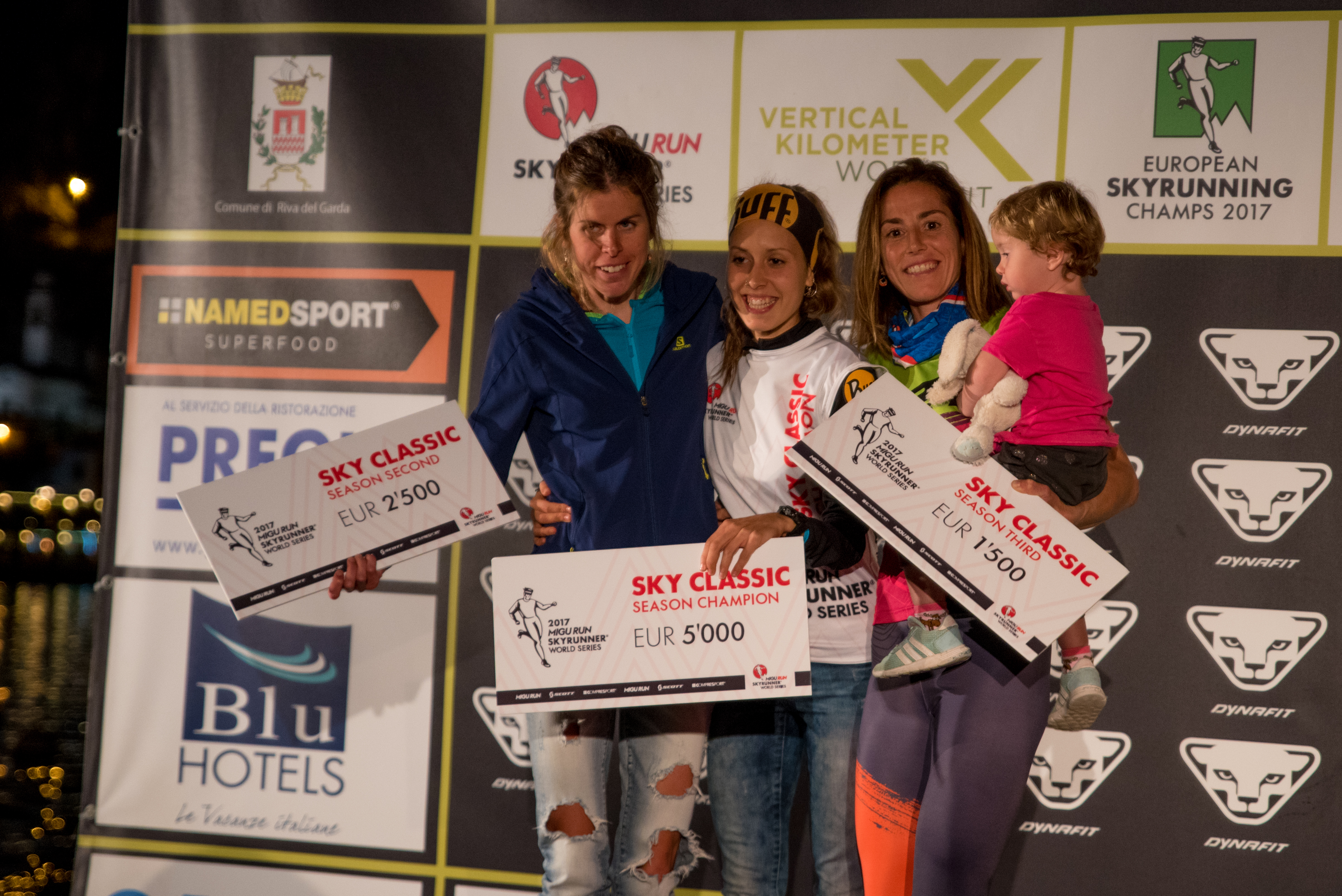 Laura Orgué (2nd), Sheila Aviles (champion) and Ragna Debats (3rd) on the podium of the Sky Classic 2017 Skyrunner World SeriesNK Skyrunning 2017 Zout Fotografie-61